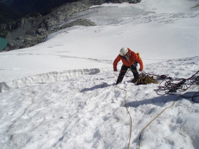 Taken while on a Mountain Rescue Evaluation course in the Tantalus Range of British Columbia, shows a rescuer preparing for a Crevasse Rescue, Snow Anchors are visible during the preparation to approach the edge of the crevasse and access the subject.